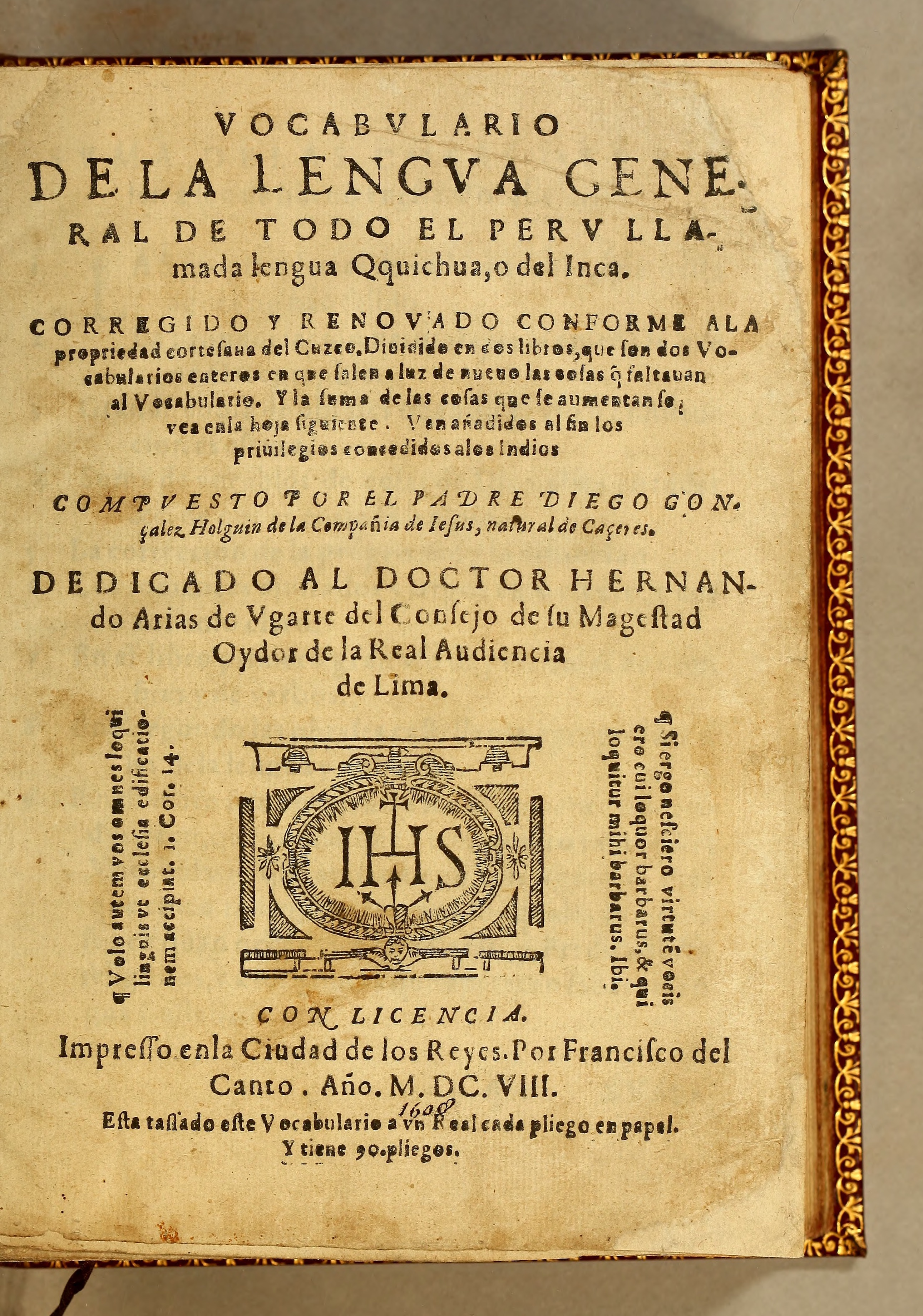 Original 1608 edition of Vocabulario dela lengua general de todo el Peru llamada lengua Qquichua, o del Inca by Diego González Holguín